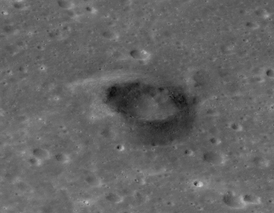 Volcanic feature in Mare Nubium. This feature is discussed in the caption of figure 88 of Apollo Over the Moon (NASA SP-362),1978, Chapter 4: This dark crater ... has a prominent, smooth, convex rim. It is not surrounded by a hummocky or blocky ejecta blanket and has no rays. These characteristics suggest that this crater is volcanic in origin.